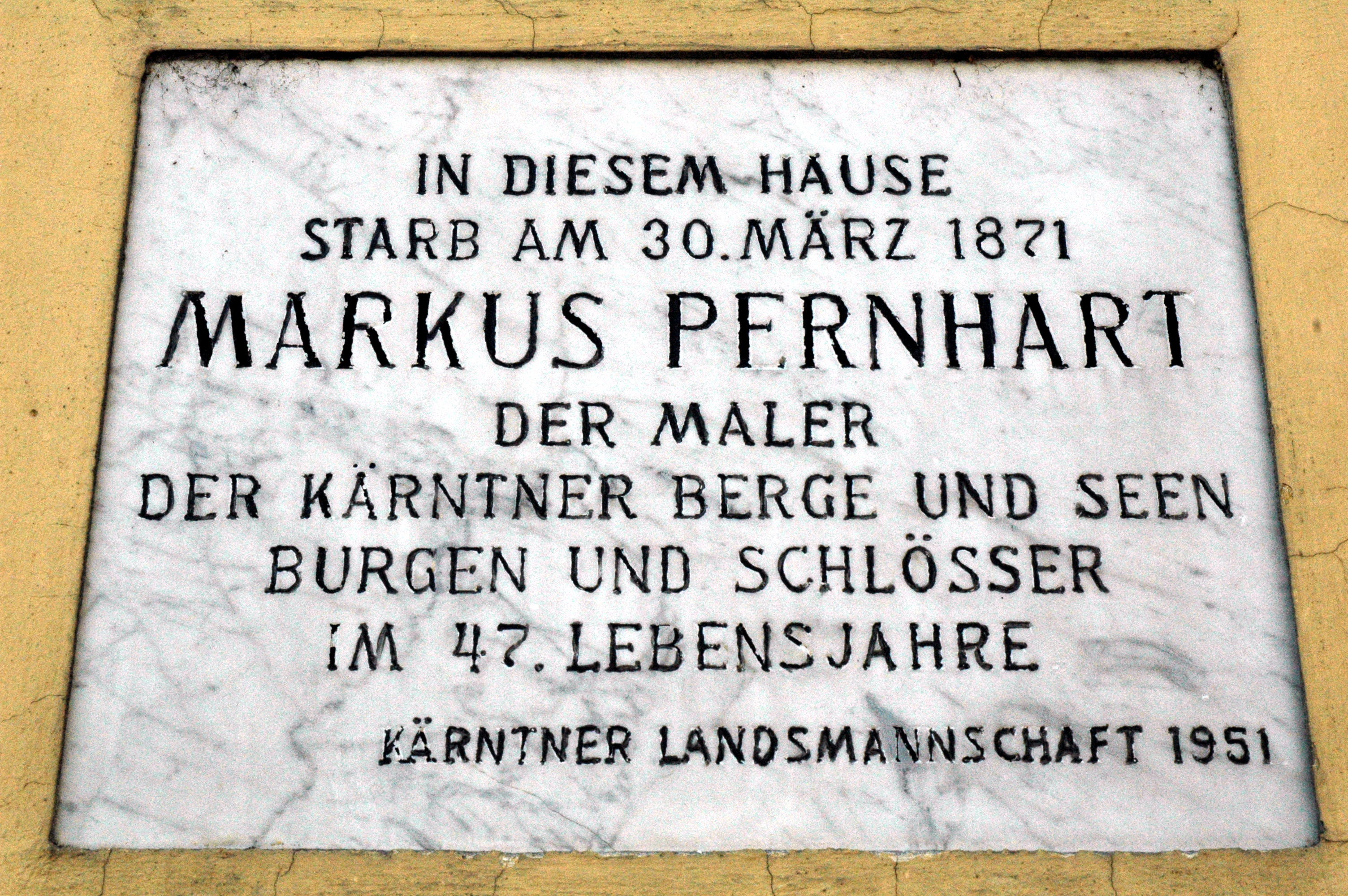 Inscription stone on the last residence of Markus Pernhart on St. Veiter Ring #28, Klagenfurt, Crinthia, Austria